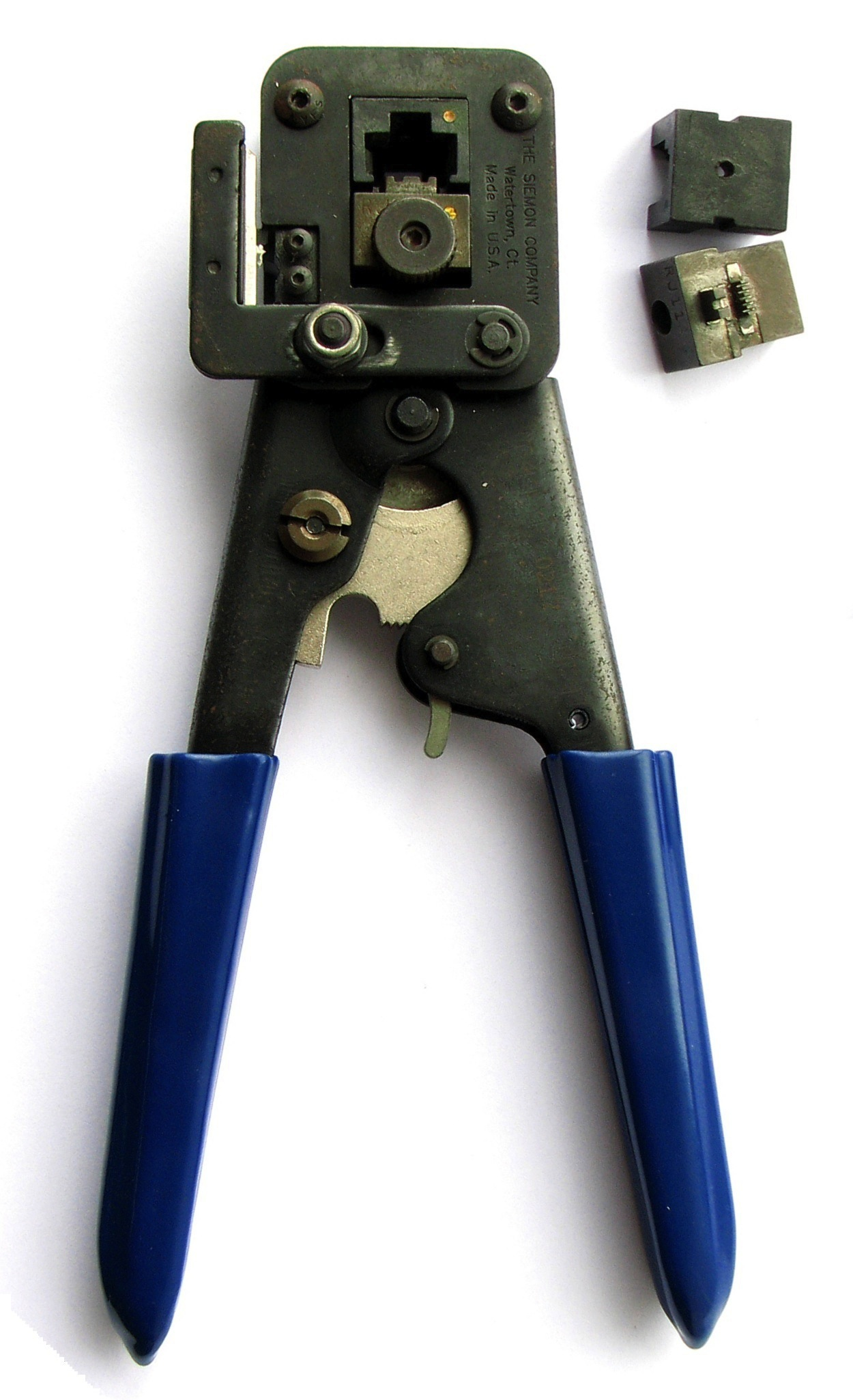 Heavy duty crimping pliers (crimp tool) with interchangeable heads. Shown with fitted RJ45 head and RJ11 head on the side.